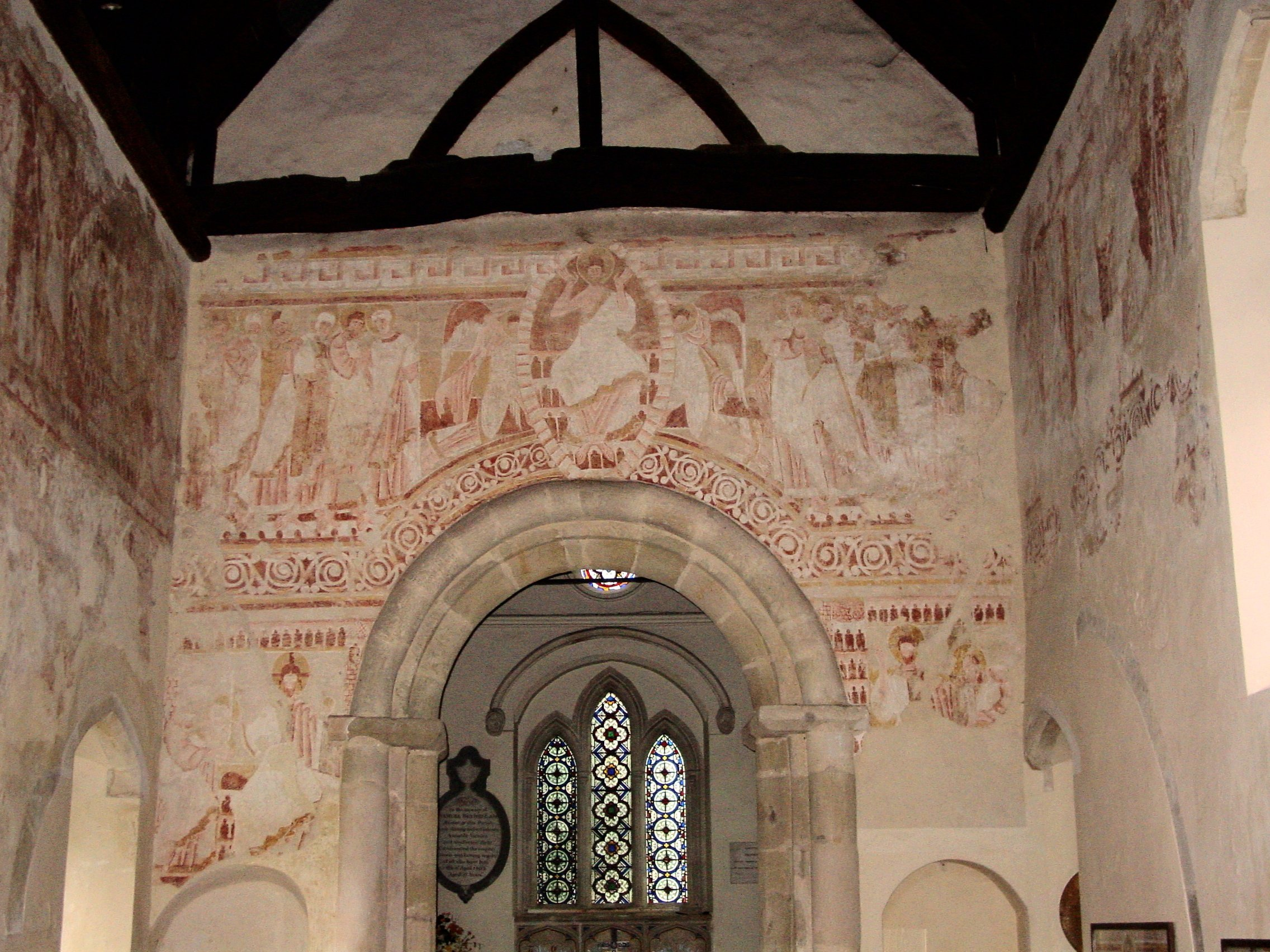 Clayton Church interior showing 12th Century wall paintings of the last Judgement